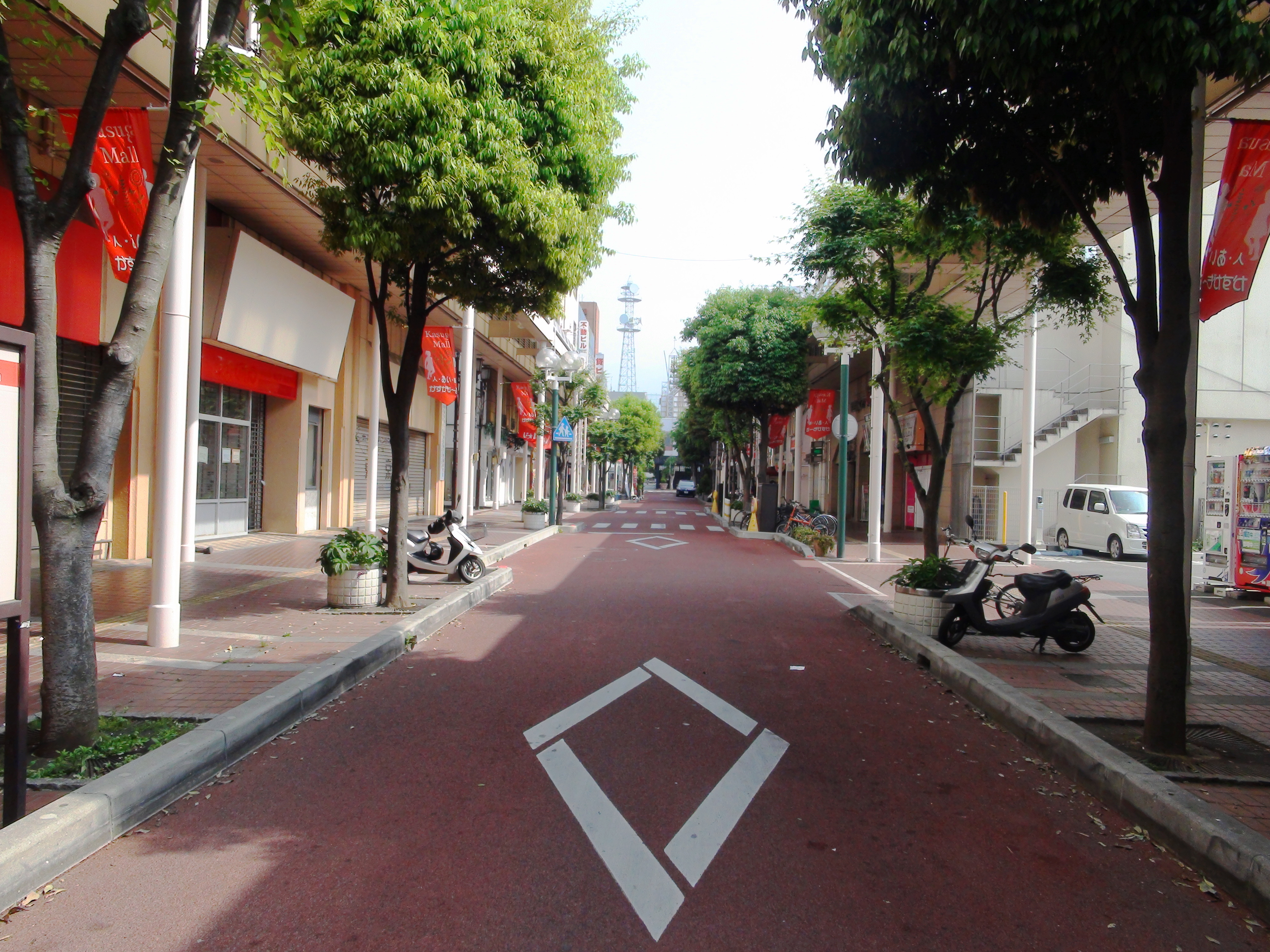 Kasuga Avenue mall Kofu-City